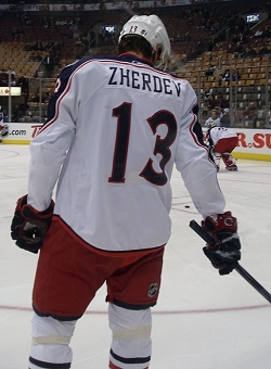 Nikolai Zherdev, 2008